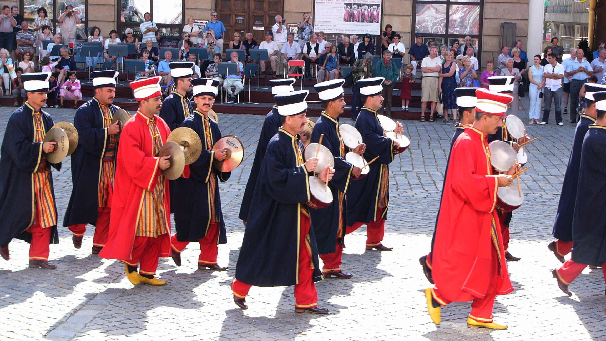 Janissary marching band.